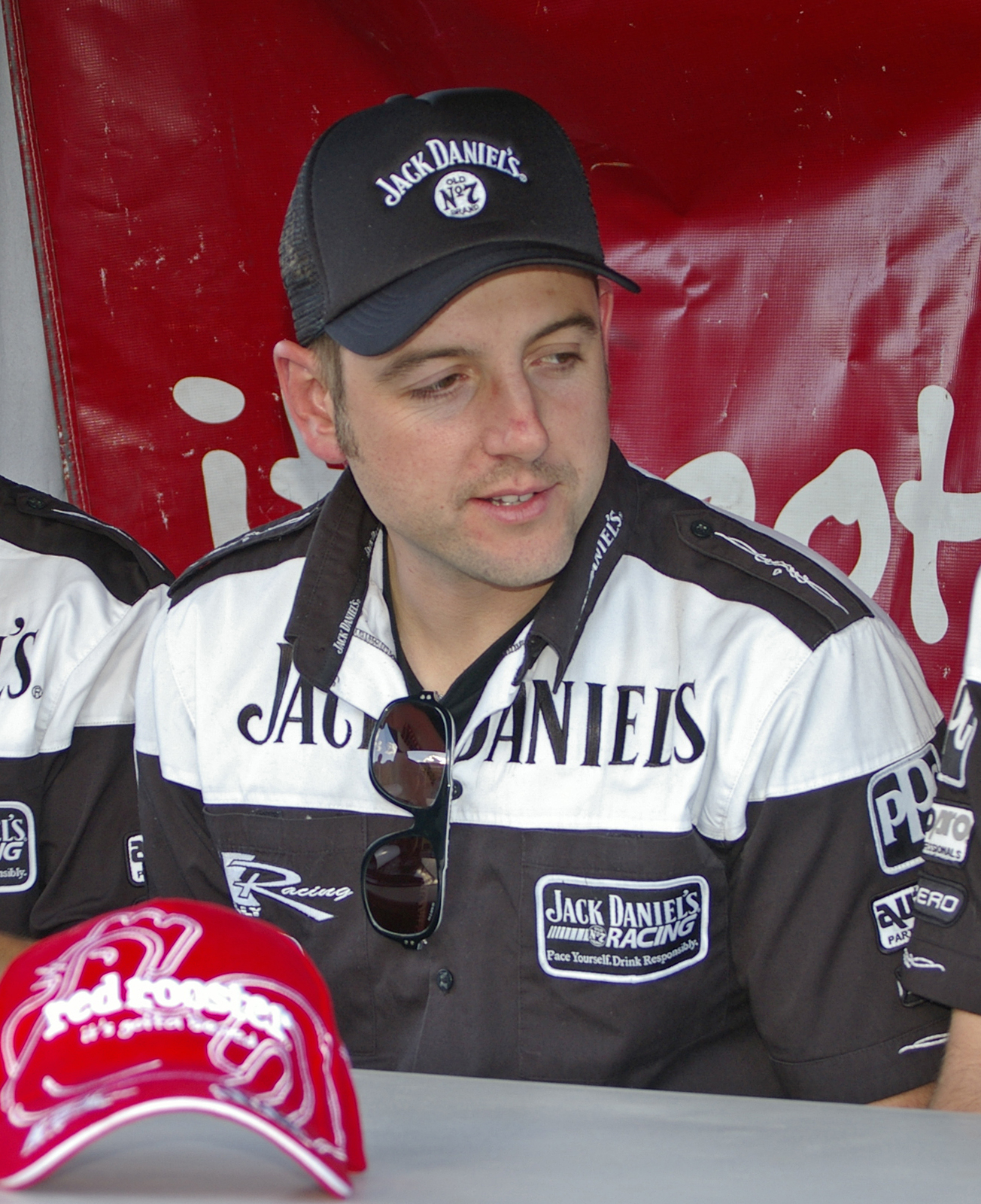 Todd Kelly at an autographing session at Red Rooster in Wagga Wagga, New South Wales.